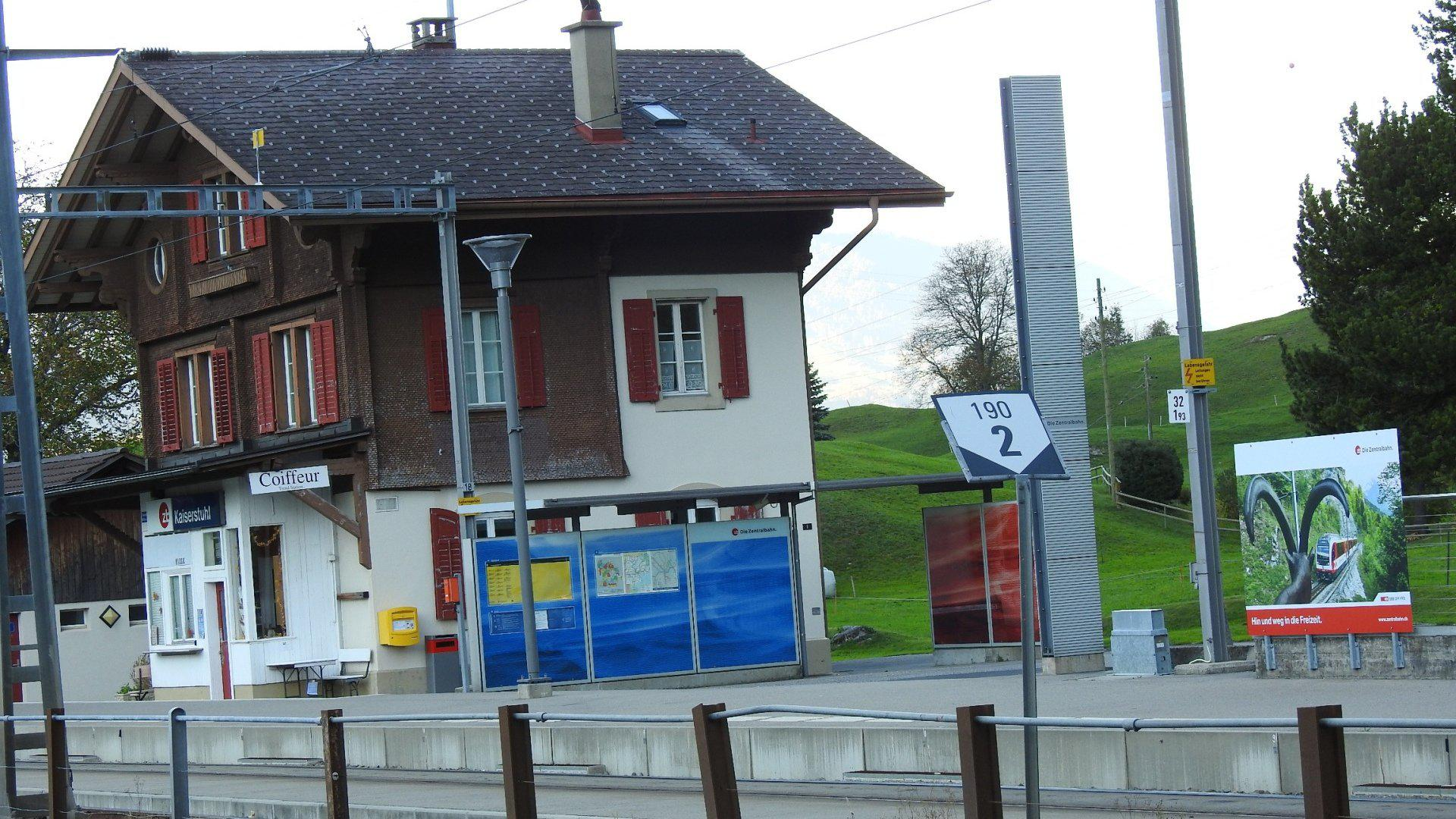 Kaiserstuhl OW railway station in Lungern, Switzerland.